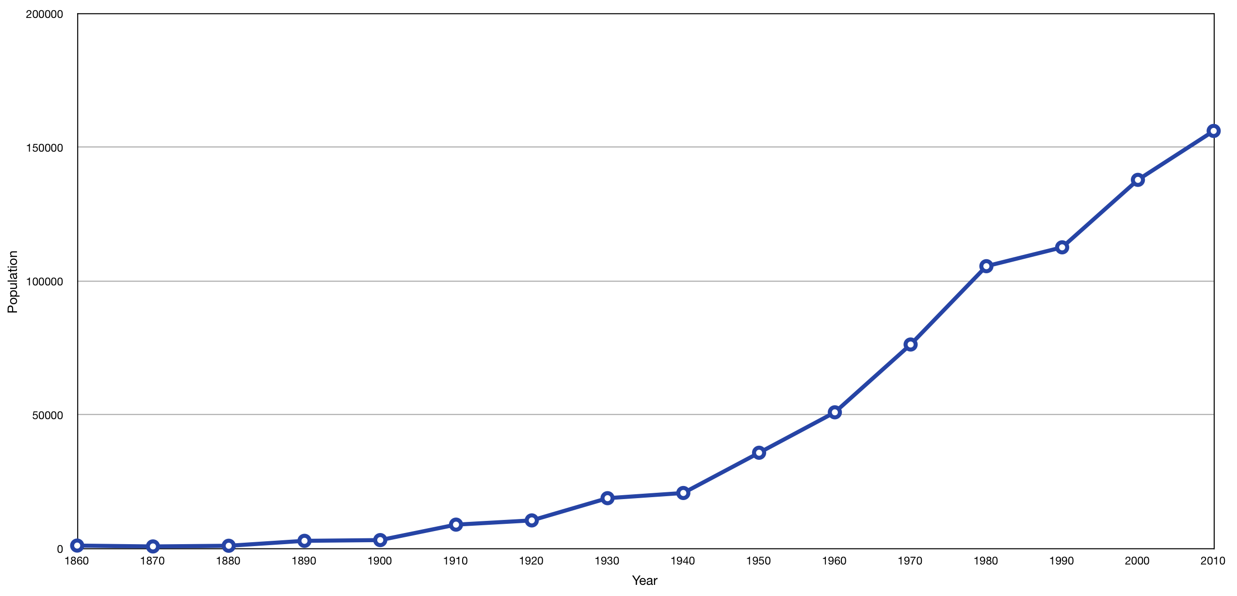 Eugene's population, Oregon, (1860-2010).